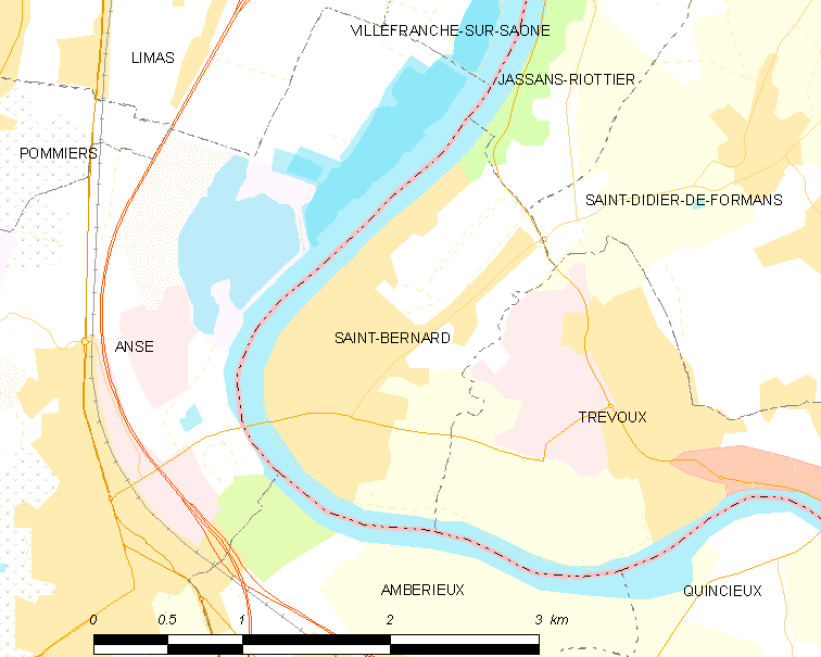 Map of French commune: Saint-Bernard Map commune FR insee code 01339.png